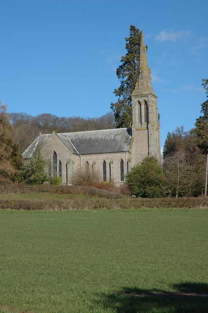 St Mary's parish church, Yazor, Herefordshire, seen from the west